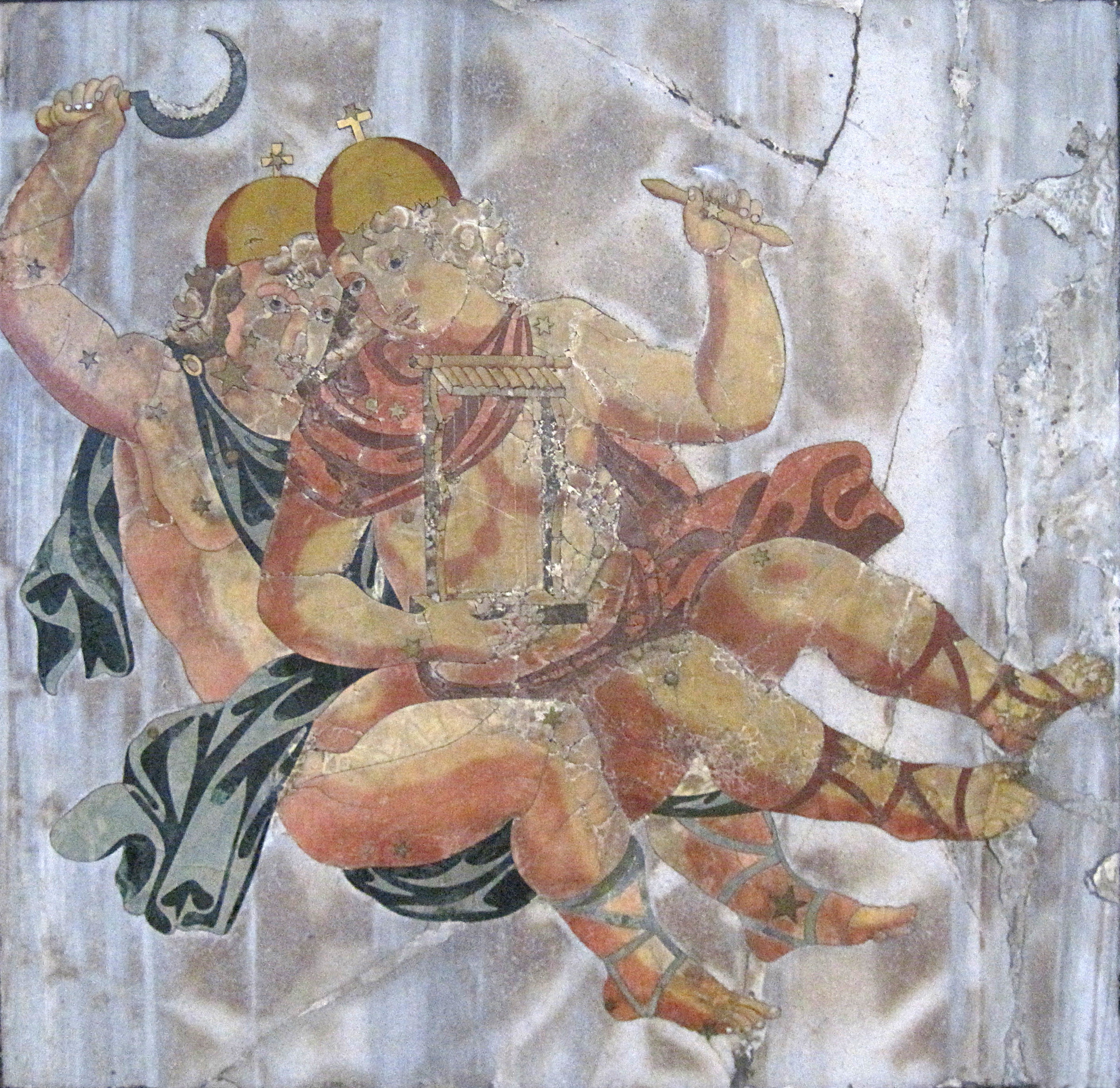 Zodiacal sign of the Gemini on panel of white marble inlaid with colored marble (opus sectile) adorning one side of the Meridian solar line of Basilica Santa Maria degli Angeli e dei Martiri in Rome built by Francesco Bianchini (1702).